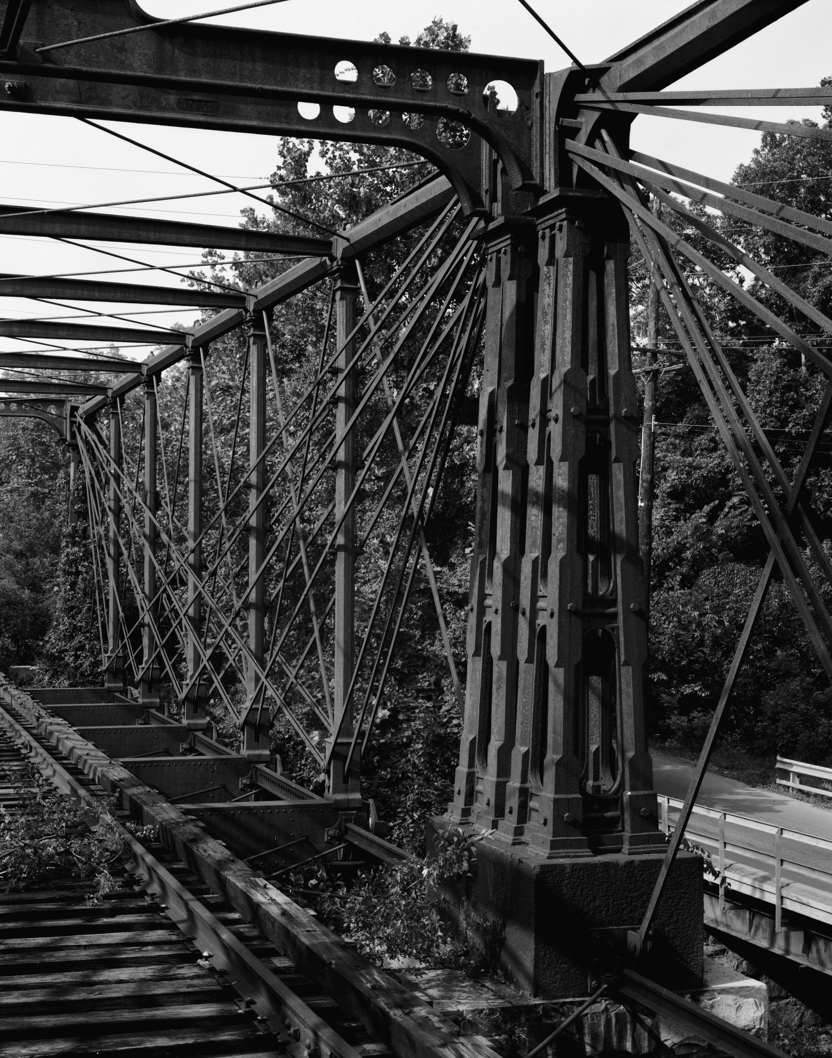 Bollman Truss Railroad Bridge at Savage, Maryland. Paired end posts at mid-span showing connection of diagonal tension members with anchor casting. Image cropped.